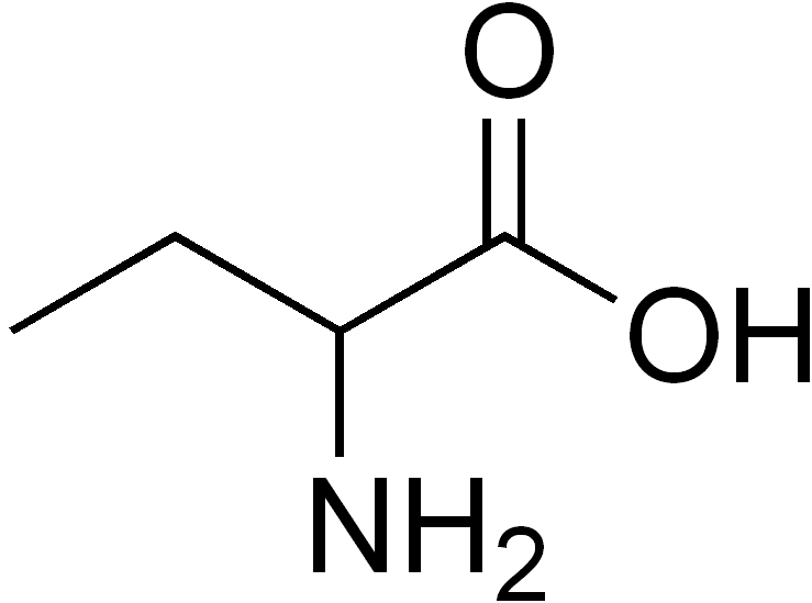 chemical structure of alpha-aminobutyric acid